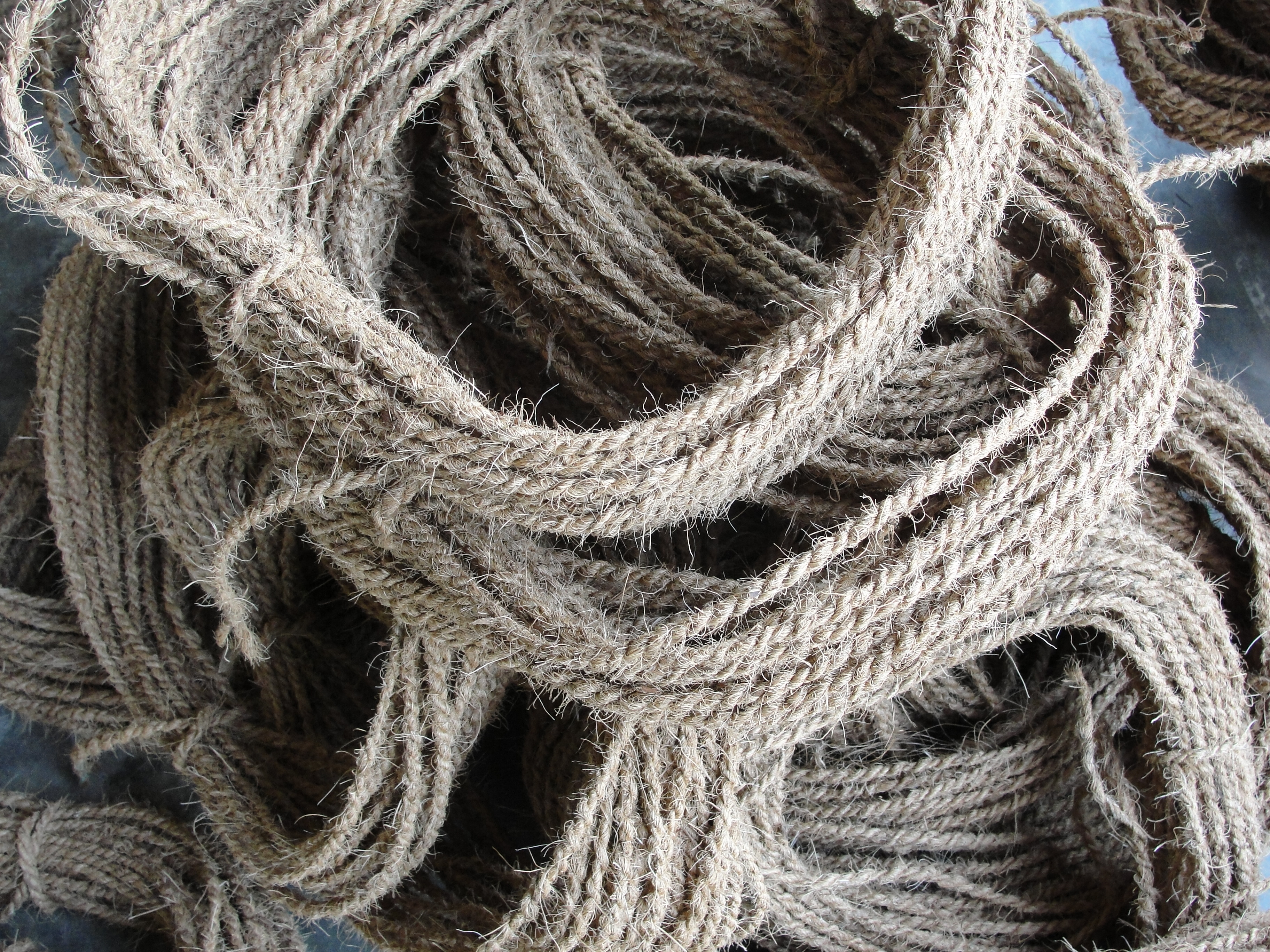 A view of coir pith rope